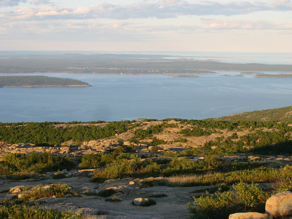 View from the summit of Cadillac Mountain, in Acadia National Park (Mount Desert Island), Maine.